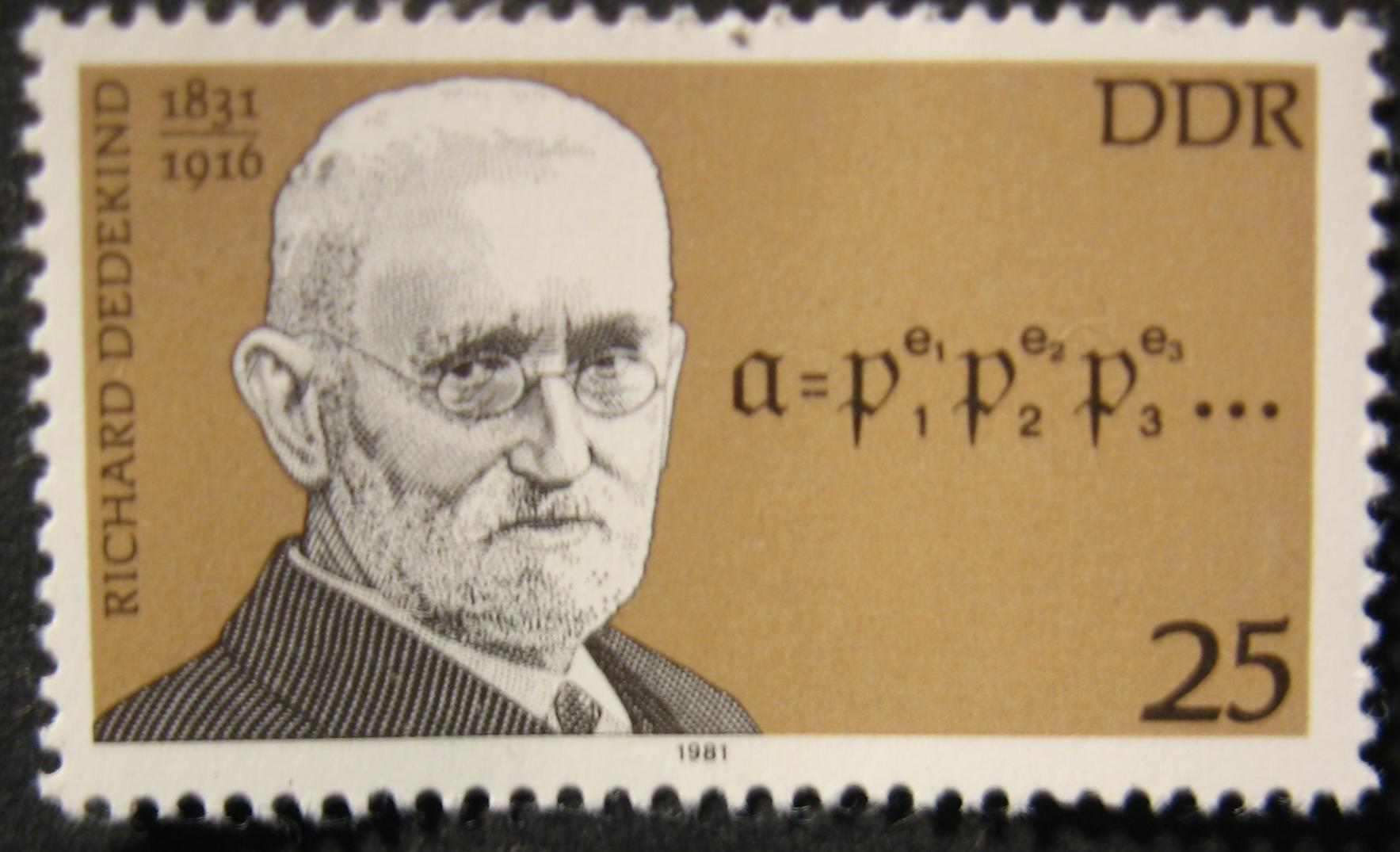 Postage stamp of GDR showing German mathematician Richard Dedekind